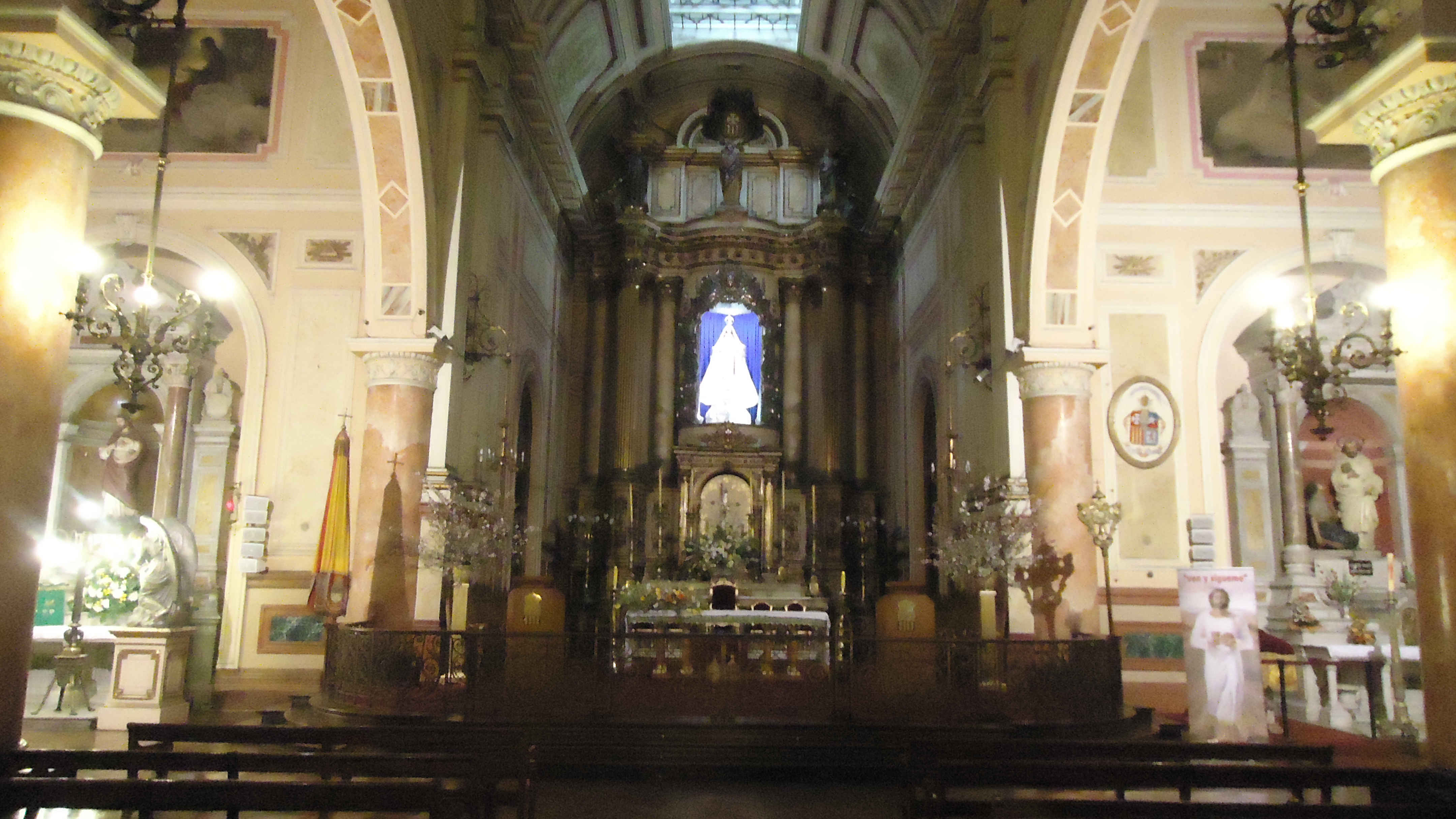 INTERIOR 2